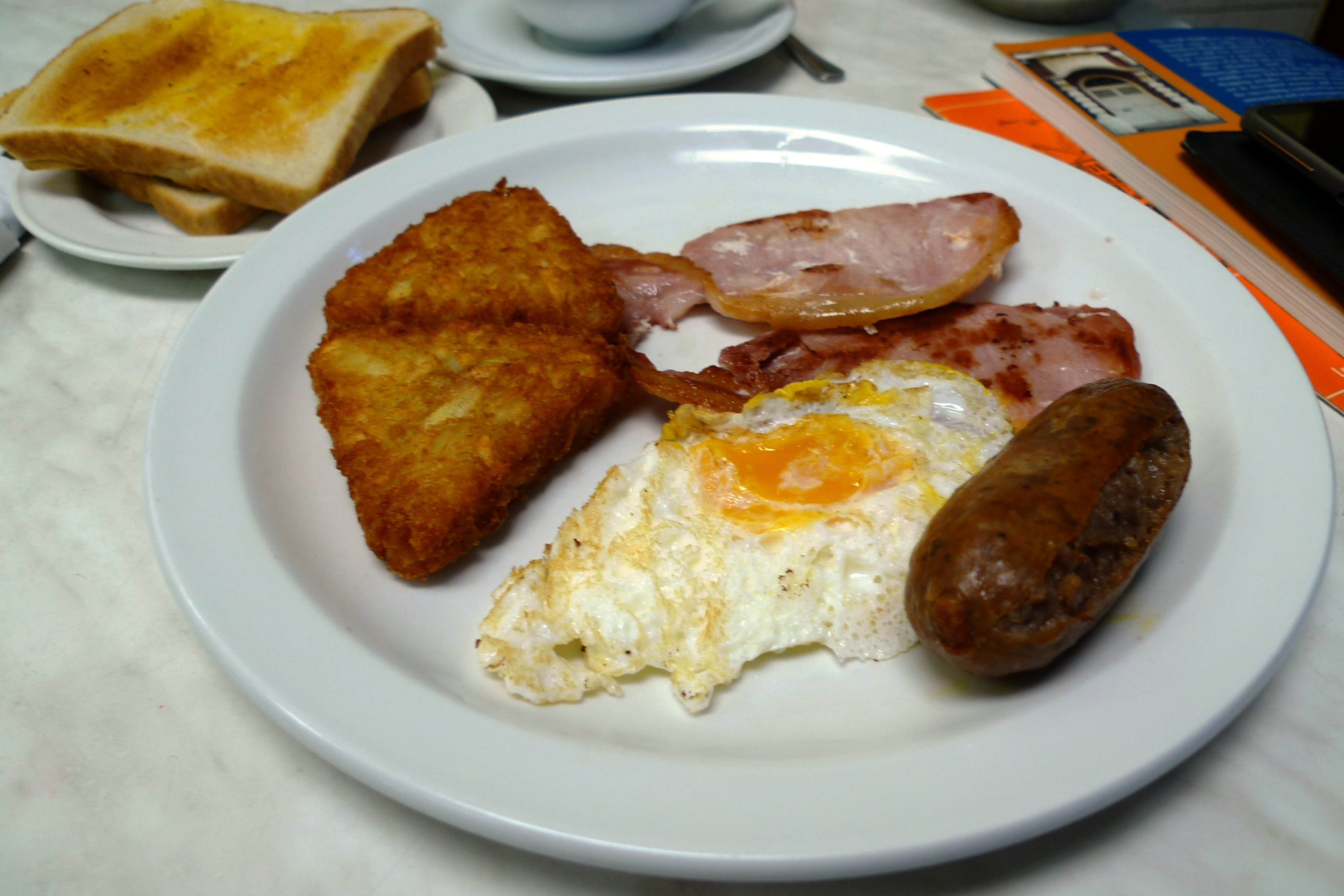 They had a list of set breakfasts for £5, and I had to go pick the one without baked beans. Just not paying attention. That said, it was good. At Matteo's Sandwich Bar, Tottenham Street.